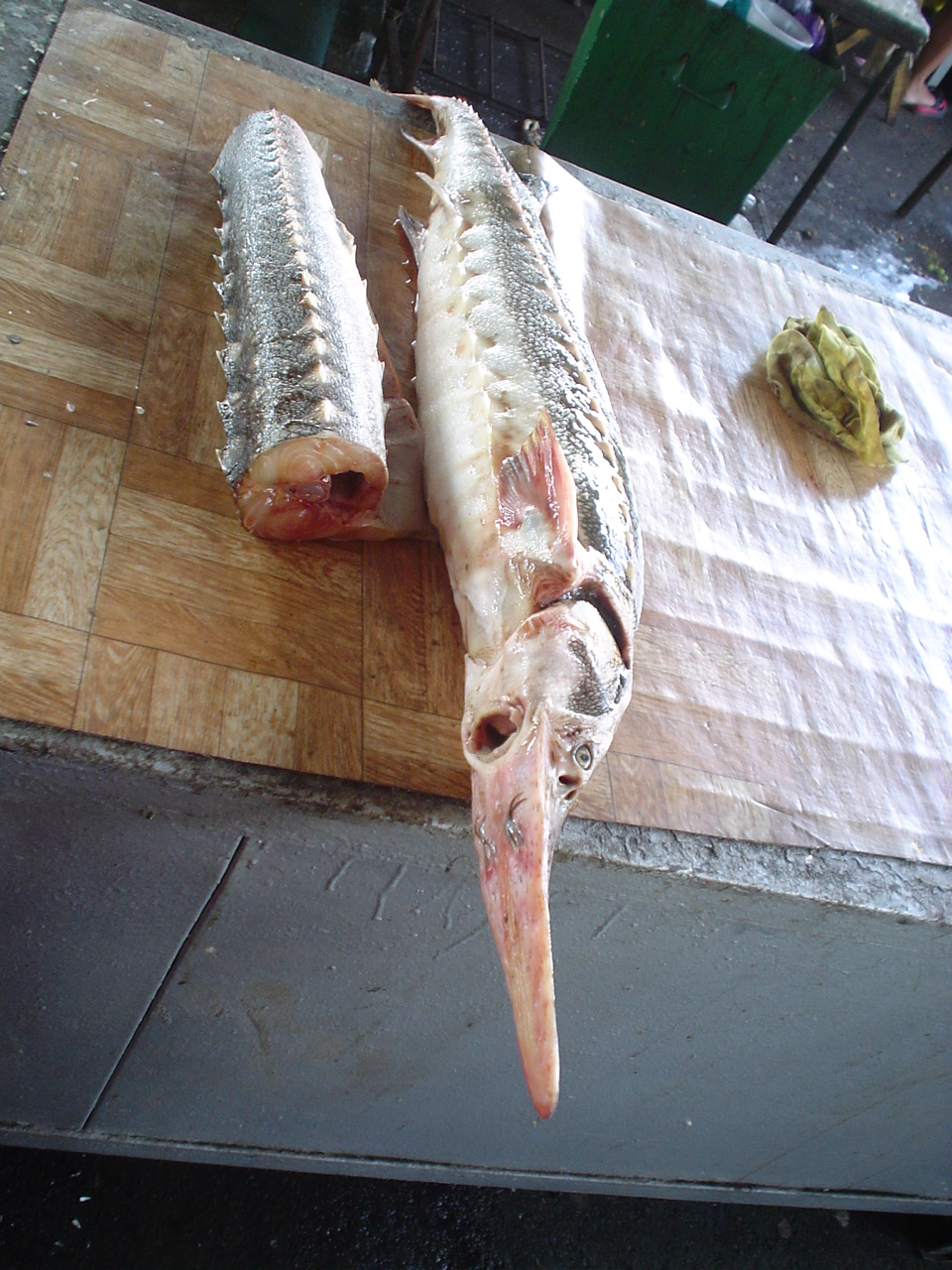 Starry Sturgeon (Acipenser stellatus) in the Pryvoz Market, Odessa, Ukraine